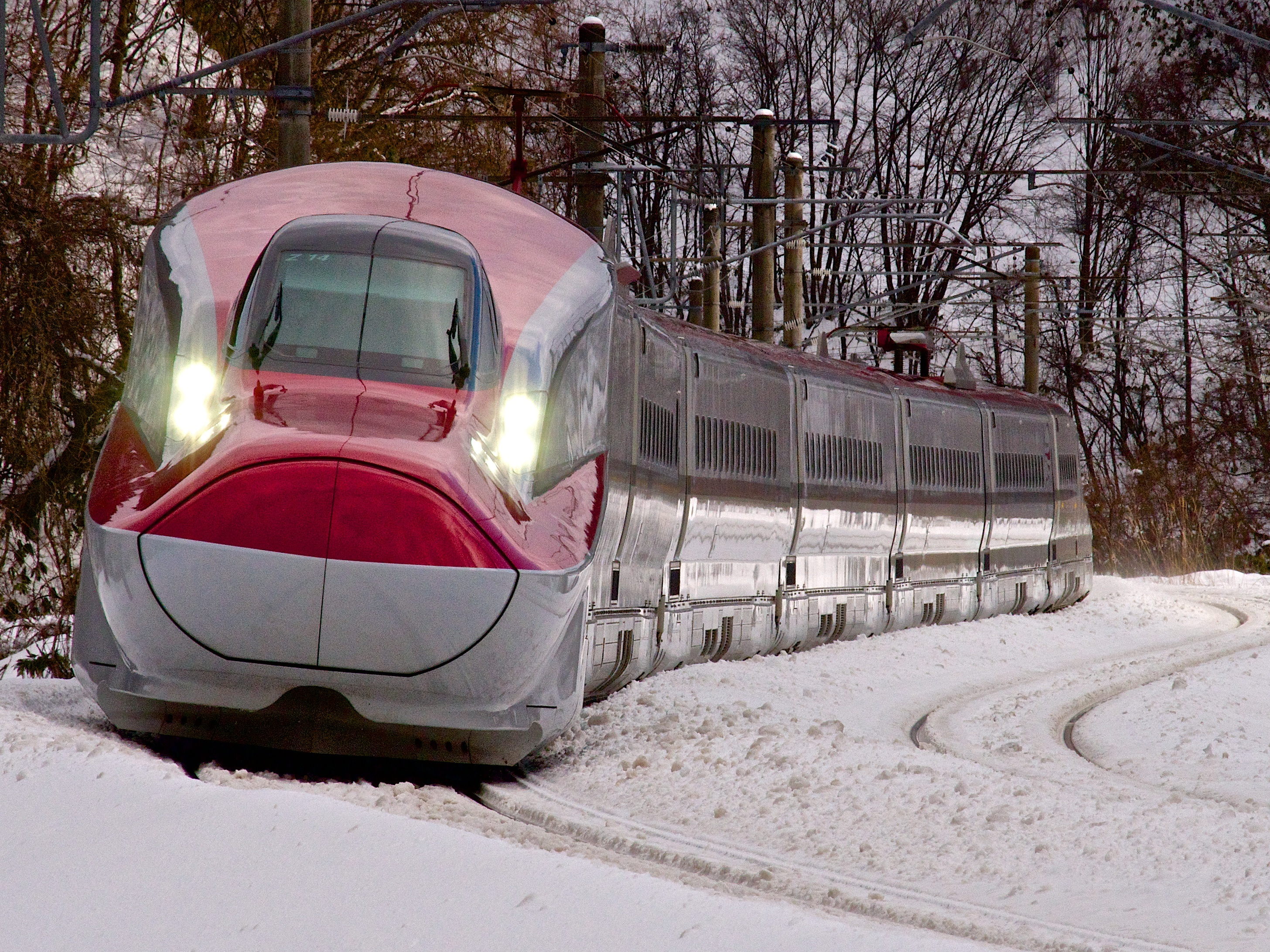 JR East E6 series shinkansen set Z14 on the Akita Shinkansen Super Komachi No. 7 service from Tokyo to Akita, on the Ou Main Line between Obarino and Ugo-Sakai stations